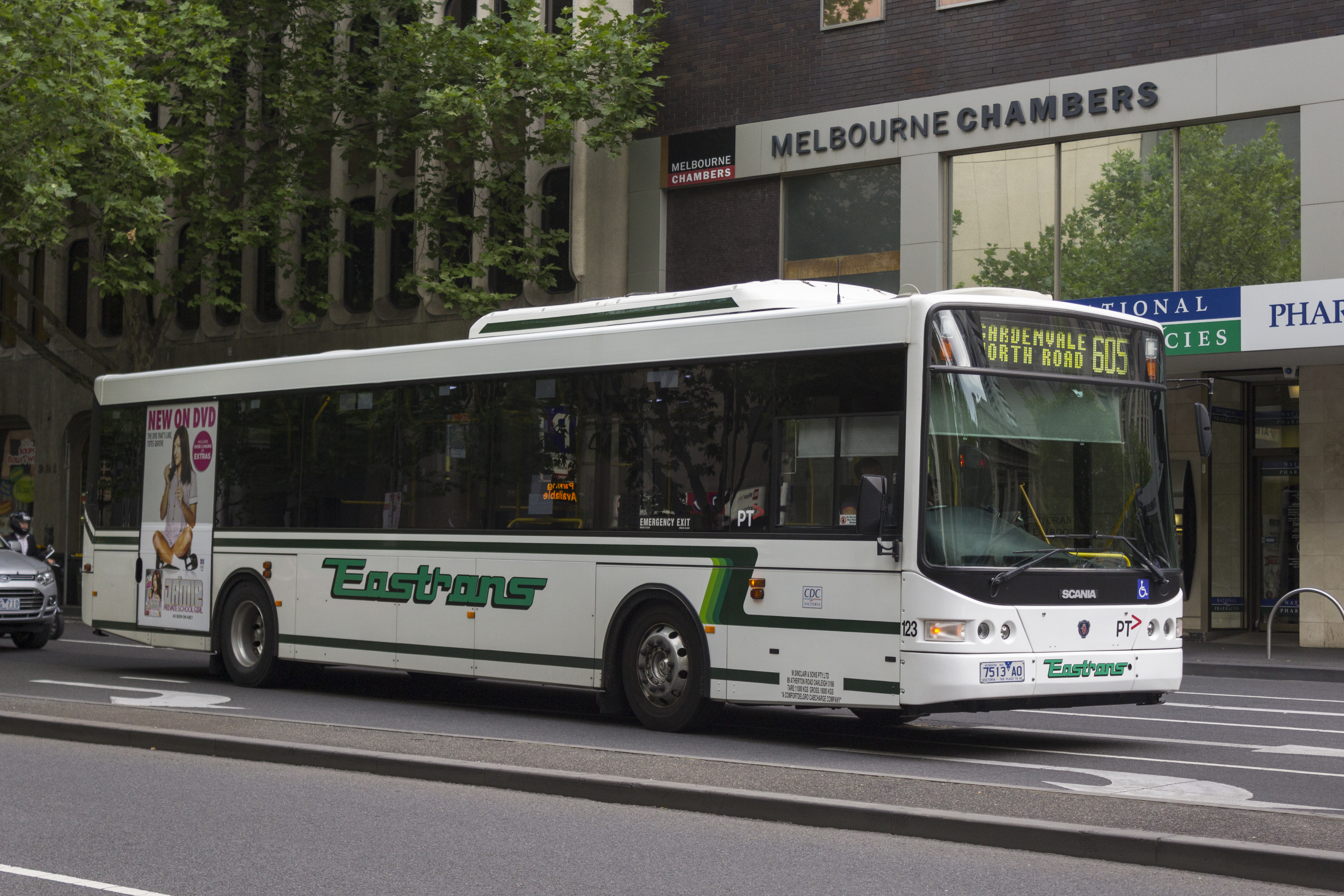 Eastrans number 123 (7513AO) Scania on route 605 in Queen St, December 2013.